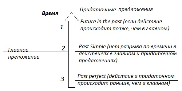 sequence of tenses in English in russian